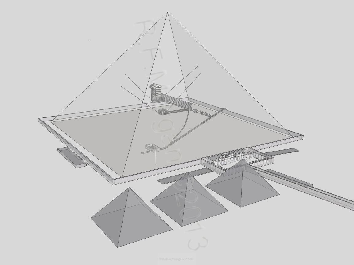 Transparent view of Khufu's pyramid from SE.